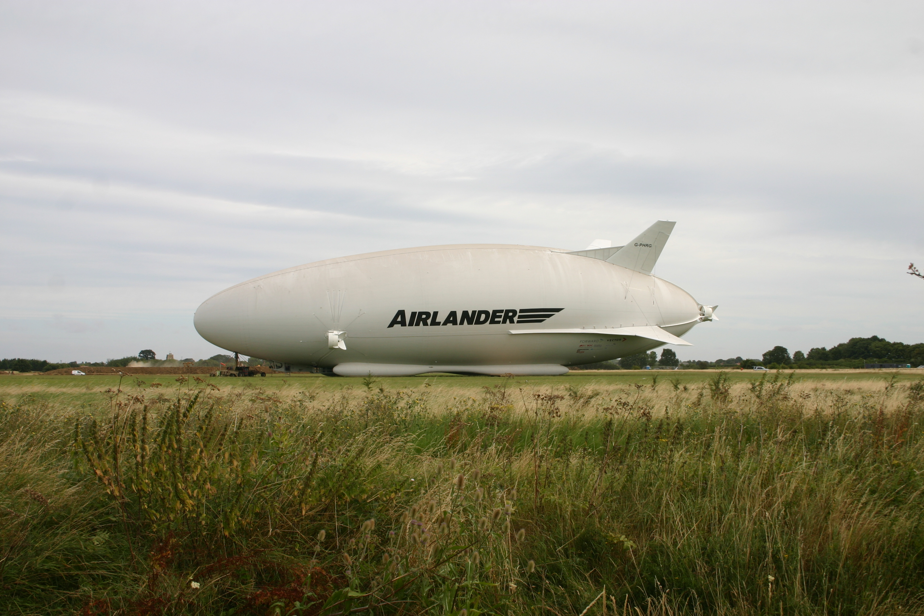 Airlander in the Grass